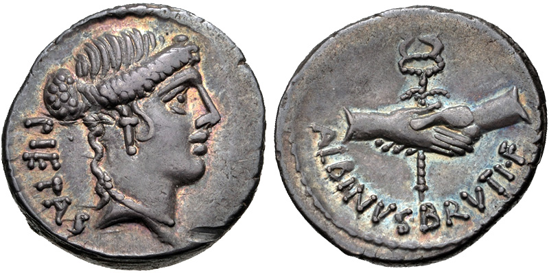 Moneyer issues of Imperatorial Rome. Albinus Bruti f. 48 BC. AR Denarius (18mm, 3.95 g, 9h). Rome mint. Bare head of Pietas right / Clasped hands holding winged caduceus. Crawford 450/2; CRI 26; Sydenham 942; Postumia 10. Good VF, attractive iridescent toning, obverse edge scrape. From the Archer M. Huntington Collection, ANS 1001.1.10513.